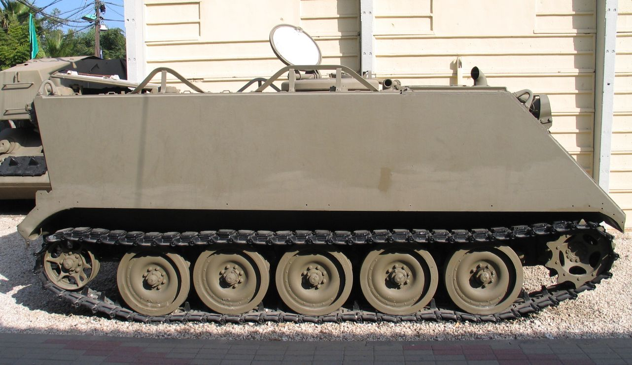 Description: M113A1 APC in Batey ha-Osef museum, Tel Aviv, Israel. 2005. Source: Photo by me, User:Bukvoed.